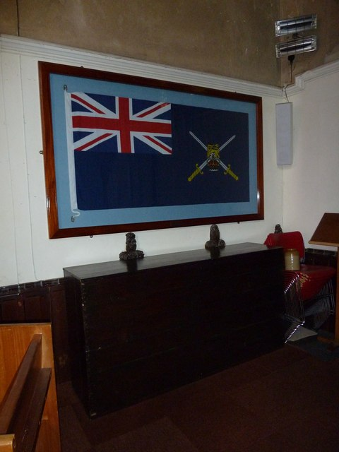 St John the Apostle, Marchwood- flag above the church chest